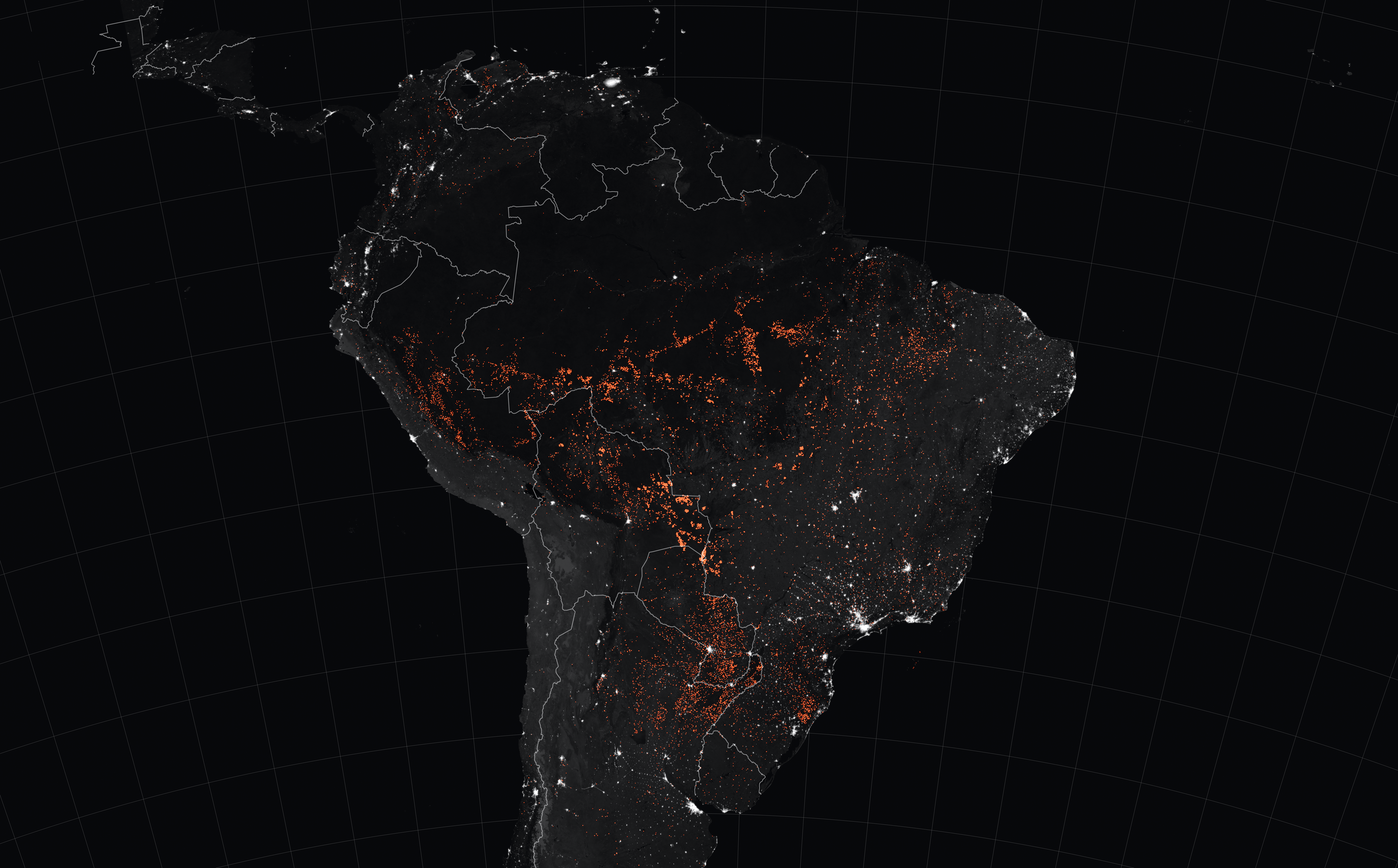 Terra and Aqua MODIS image, fires (orange-red) and cities (white light) at night in August 2019 (15 - 22): Brazil (bands along highways BR-163 and BR-230 in the rainforest region), Bolivia (Santa Cruz Department), Peru, Northern Argentina and Paraguay are affected, red dots in Southern region of Amazon River and wetland Pantanal.